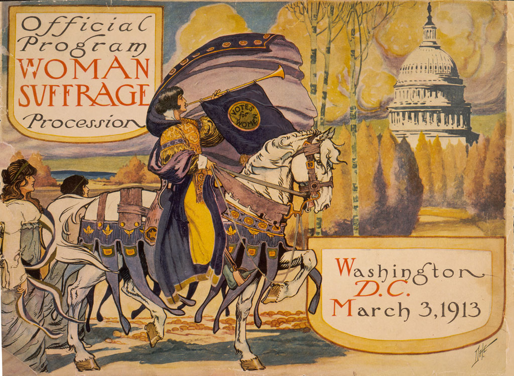 "Official program, Woman Suffrage Procession, Washington, D. C., March 3, 1913." Image courtesy of , and the Library of Congress, Washington, D.C.